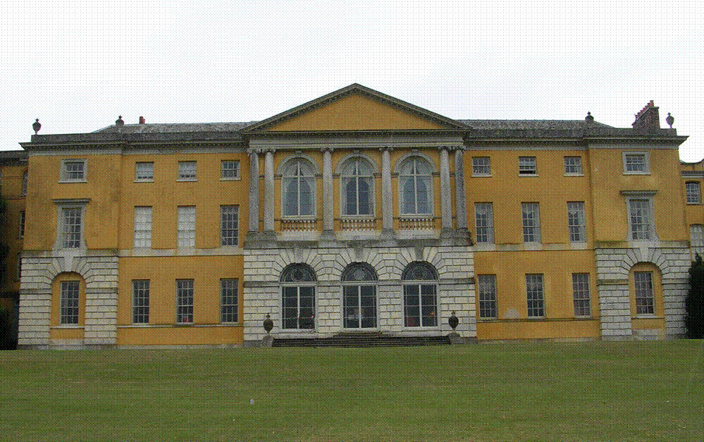 West Wycombe Park, Buckinghamshire, England. Photographed by uploader (August 2006) who releases all rights public domain